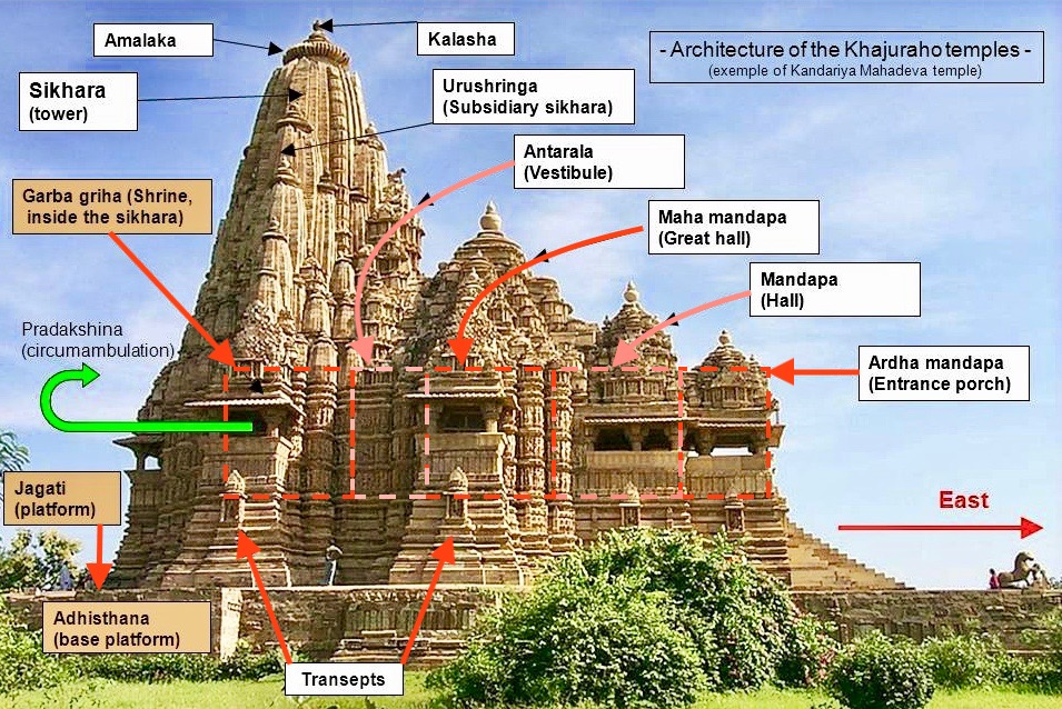 Glossary for the architecture of the Khajuraho temples. On the example of the Kandariya Mahadeo Temple.